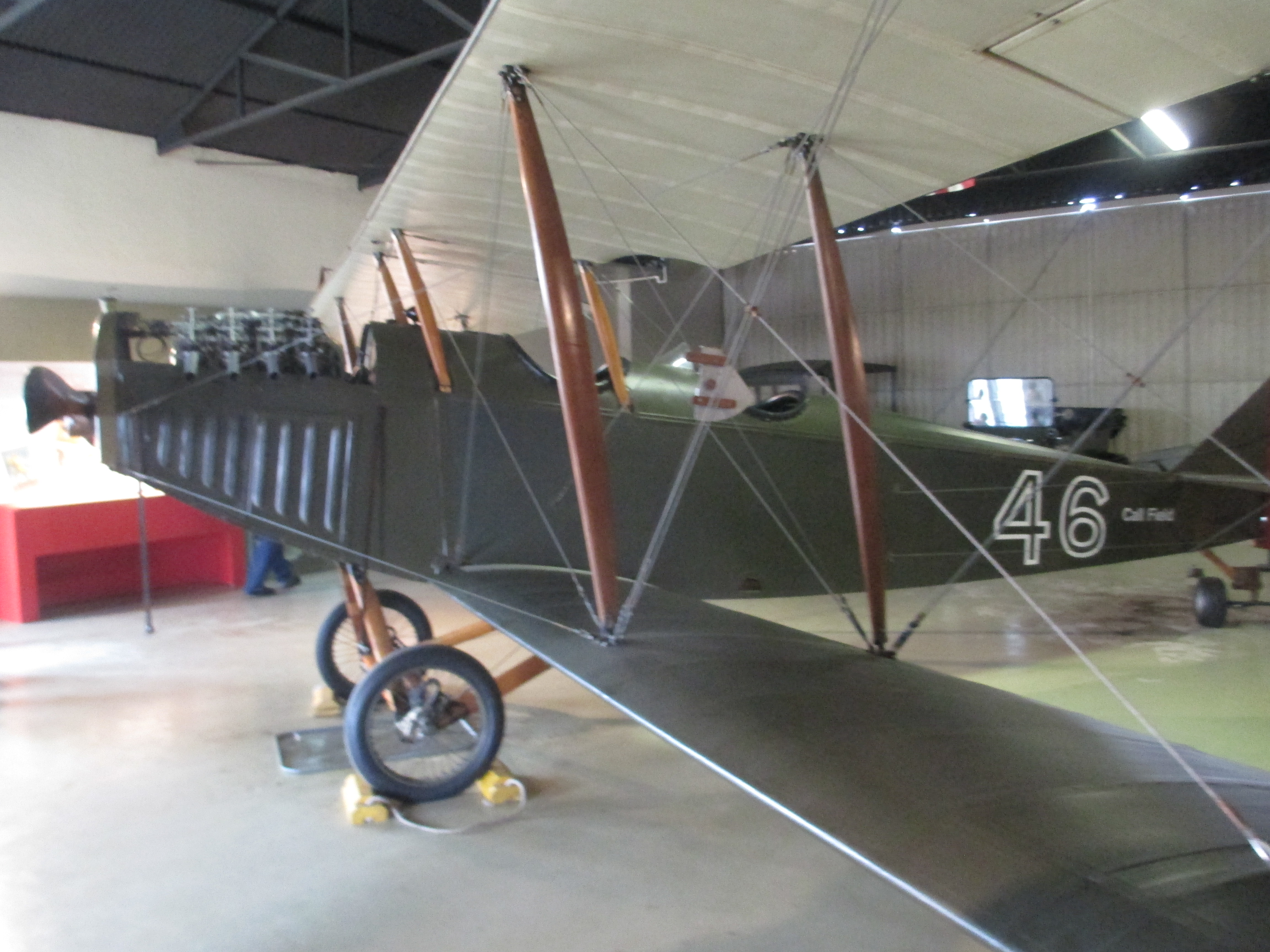 I took photo of Curtiss Jenny plane (Curtiss JN-4), which still flies, at its home at Call Memorial Museum in Wichita Falls, TX, with Canon camera, April 4, 2013. Billy Hathorn (talk) 01:28, 11 April 2013 (UTC)